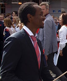 Amin Askar (left) and Ibrahim Drame (right) in 2014